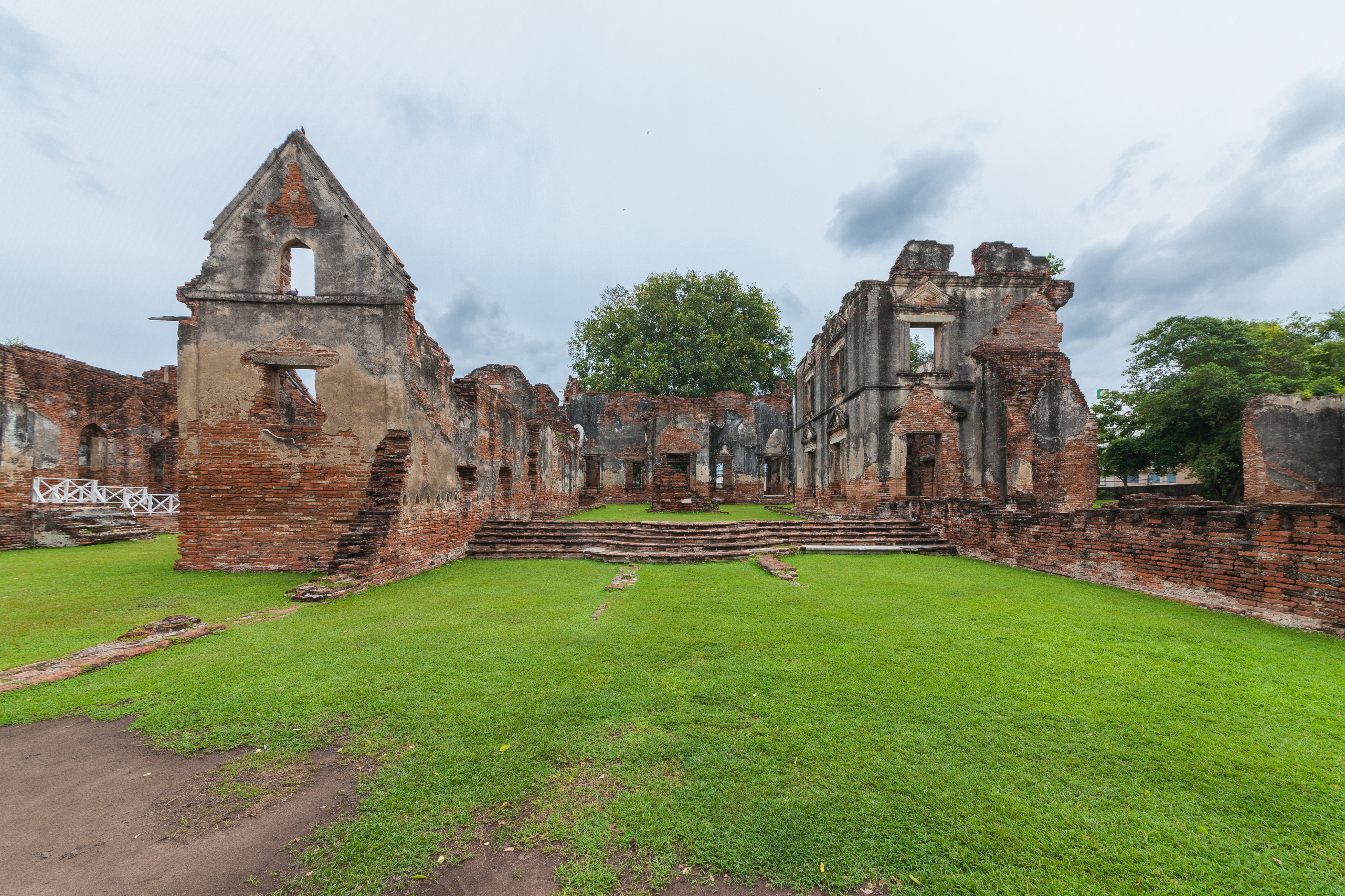 Wichayen House is located on Wichayen road in Tha Hin subdistrict, Mueang Lop Buri District, Lop Buri Province, Thailand.